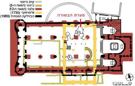 Basilica of the Annunciation Archaeological Excavations in Nazareth .